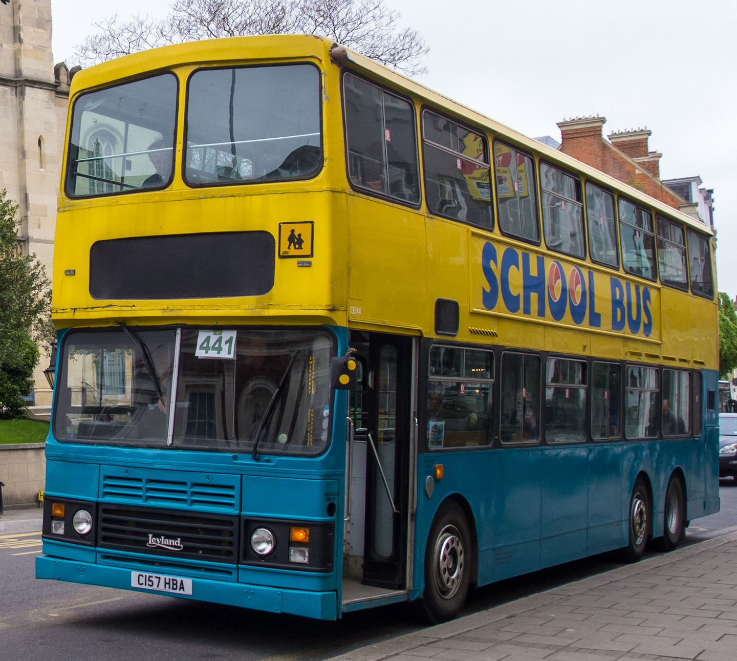 Simmonds of Iver bus (reg. C157 HBA), a 1986 Leyland Olympian double-decker with Alexander RH bodywork, pictured during the 2012 Slough & Windsor running day. It's a high capacity tri-axle 12m long bus, delivered new to Hong Kong operator Kowloon Motor Bus as their fleet no. 3BL64 (reg. DH 5054). It's still wearing half the yellow livery and 13514 fleetnumber of it's last UK usage, as a school bus for Stagecoach Bluebird. See Second-hand Hong Kong tri-axle buses imported to the United Kingdom for a full vehicle history.